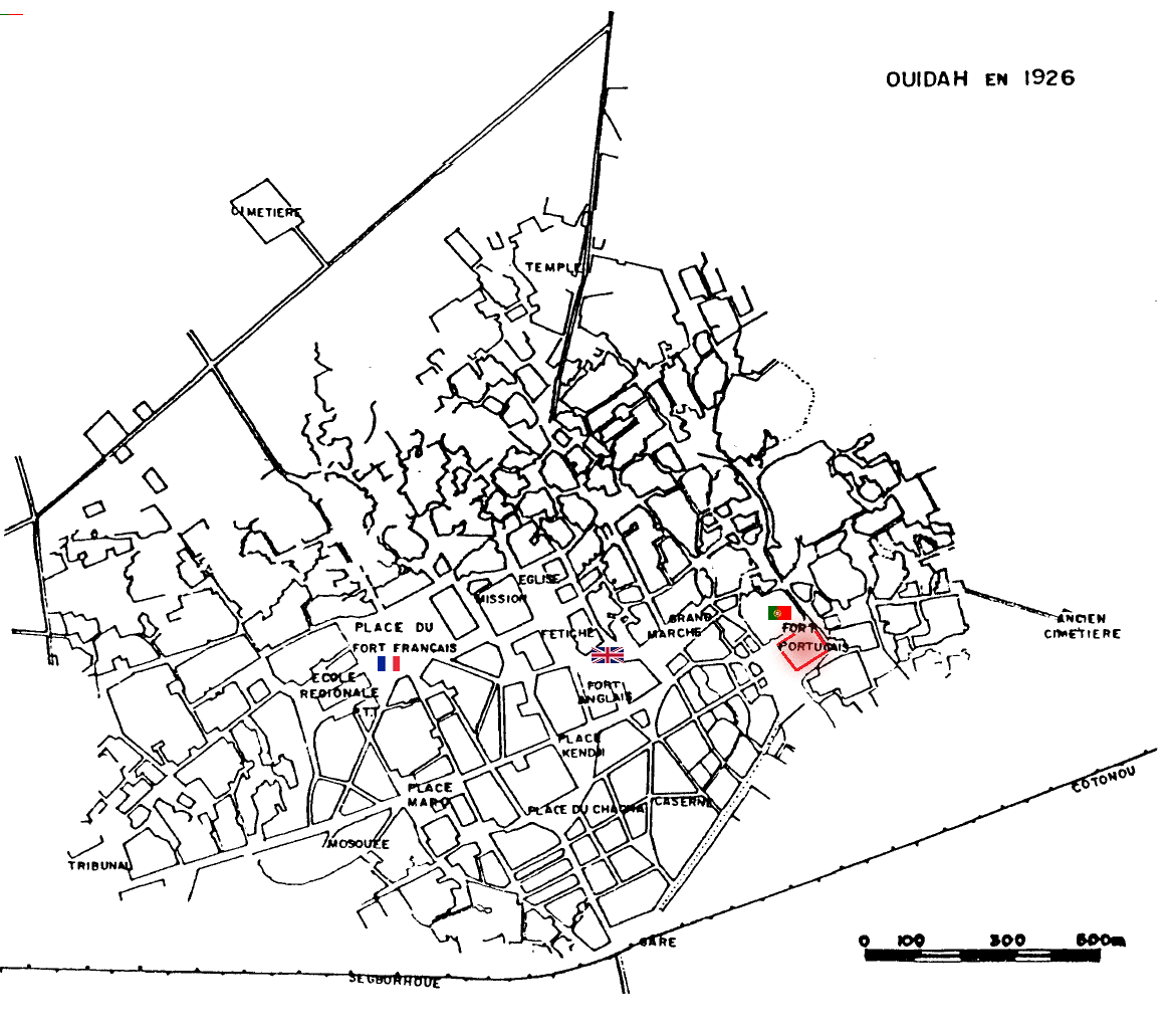 1926 basic city map of Ouidah, French Dahomey (now Republic of Benin). The area occupied by the Portuguese fort (Forte de São João de Ajudá) is shown in pink (color added later). The fort remained an enclave under Portuguese sovereignty until 1961. The location of the former British fort ('Ancien fort anglais') and French fort ('Place du fort français'), both torn down by then, is also indicated. The Gulf of Guinea would be at the bottom of the map.